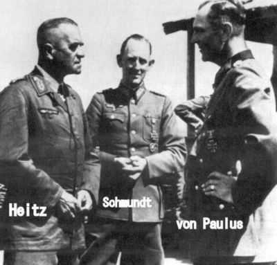 Paulus (incorrectly labeled as von Paulus) meets with his generals Walter Heitz and Rudolf Schmundt